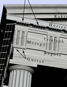 Labeled image of the Doric order entablature J. Matthew Harrington, self-made image